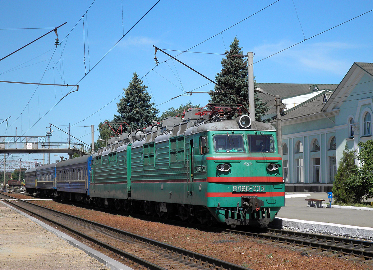 Electric locomotive VL80T-2031 with passenger train, Lubny station, Ukraine, 2011